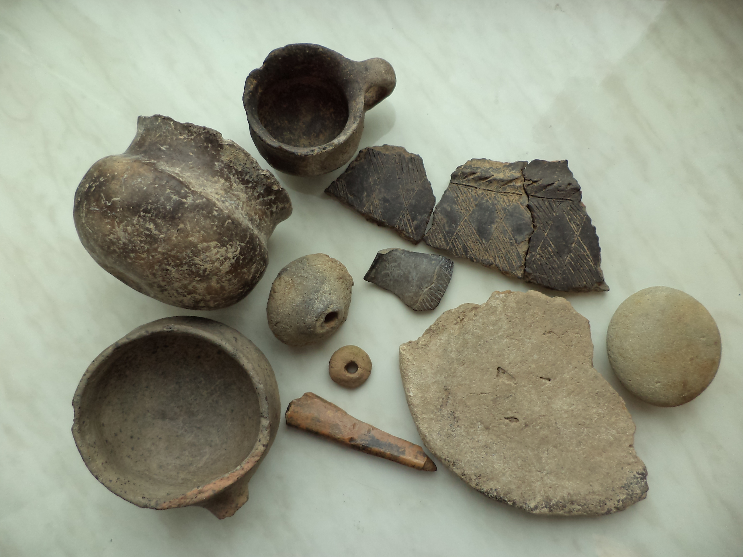 Chornoliska culture. Archaeological finds in Rudkivtsi hillfort; the lands of the middle Dniester River in Ukraine.